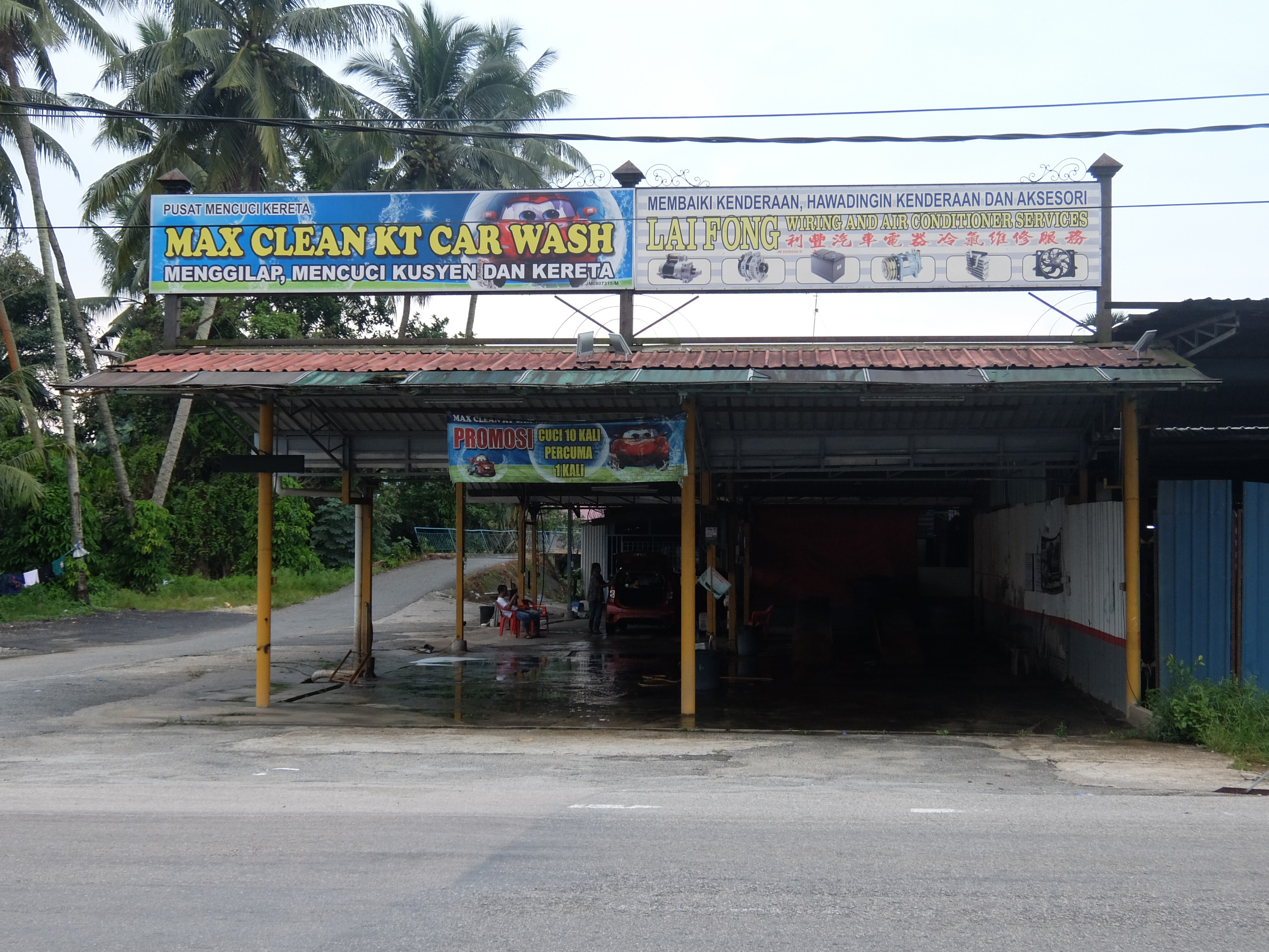 Max Clean KT Car Wash, Kota Tinggi, Johor, Malaysia